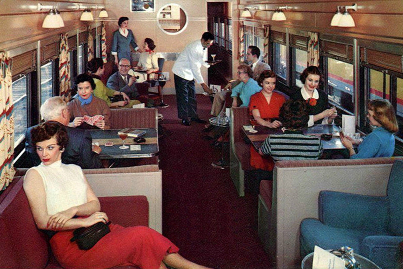 Photo postcard of the Union Pacific Railroad's Challenger club lounge.